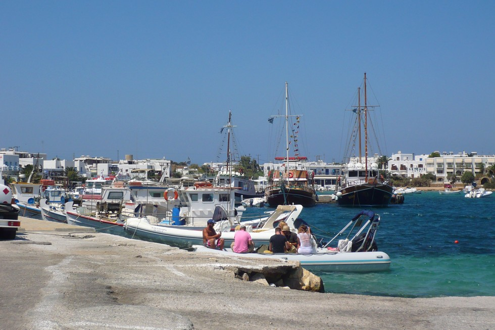 The seefront of Antiparos island in Greece.